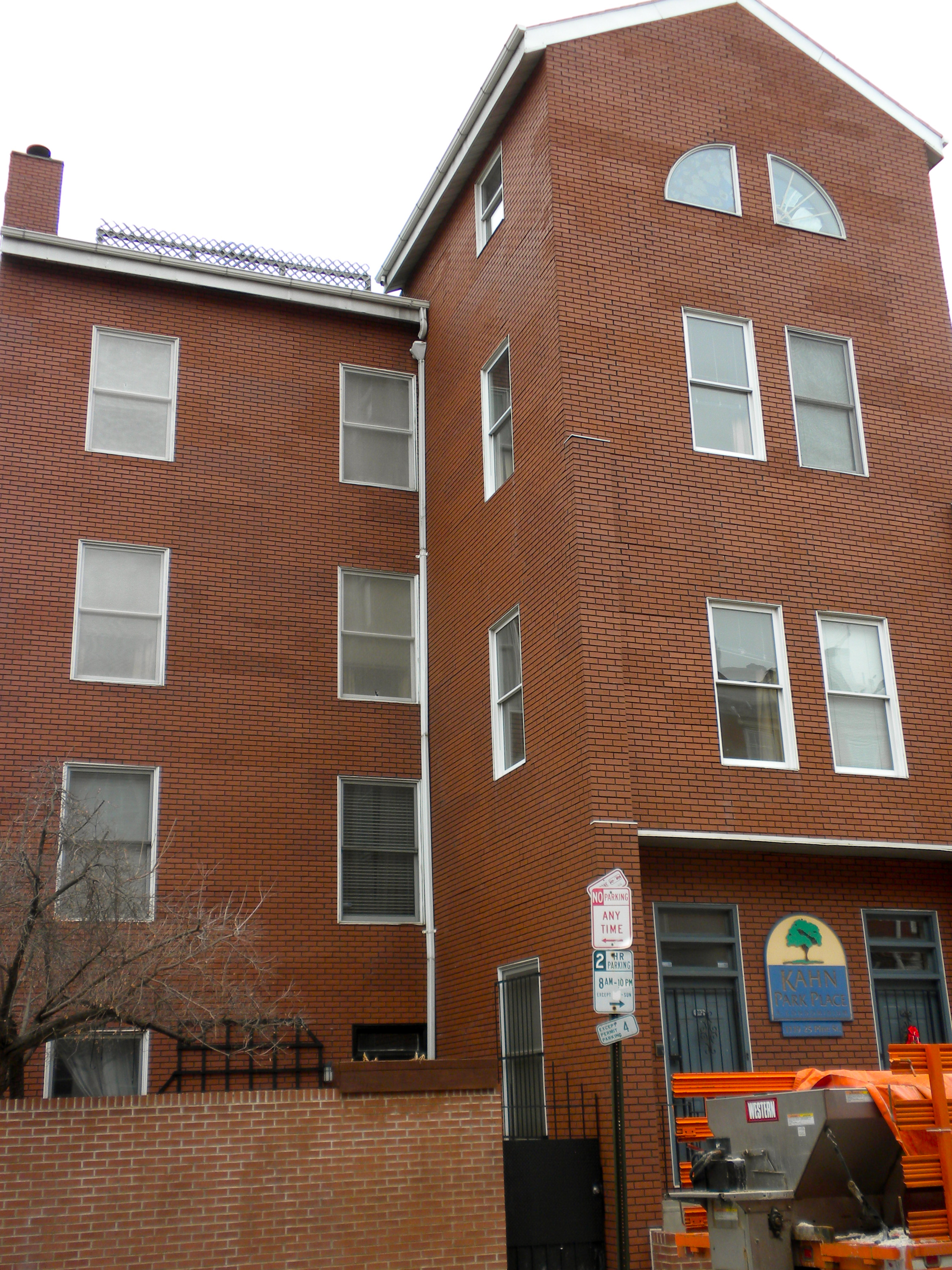 North east corner of Pine and Quince Streets in Center City, Philadelphia. This used to be the J. Sylvester Ramsey School, on the NRHP since December 1, 1986. But see the school at [1], so obviously it's been torn down